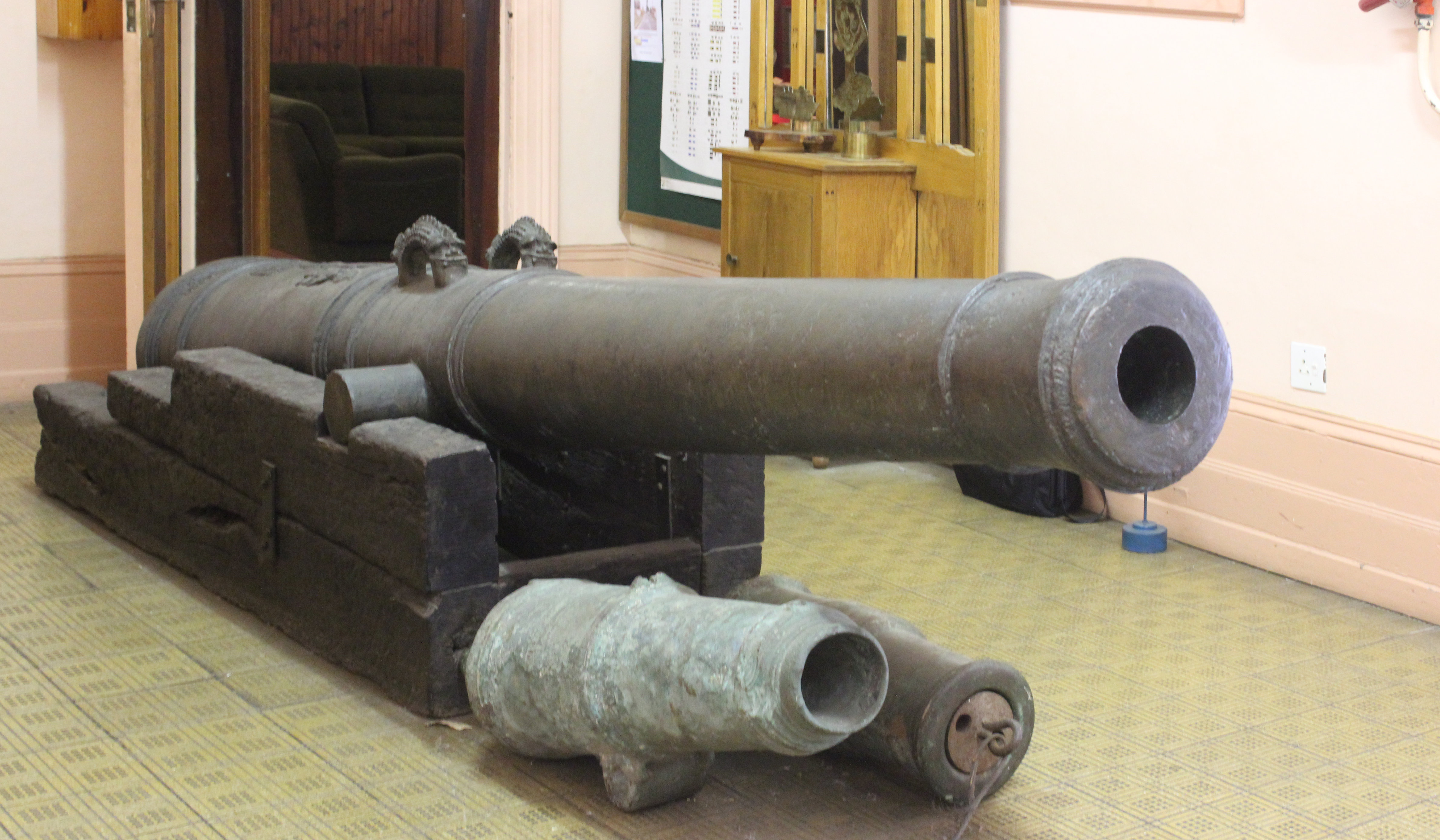 The miracle cannon of the Sacaramento was part of a consignment of bronze cannon that were cast in the Bacorro Foundry in the Portuguese colony of Macao as a gift for João IV, king of Portugal. The ship in which the cannon were being transported to Portugal, the Sacremento was lost off the South East coast of Africa in 1647, about 10 km from Port Elizabeth. This cannon was salvaged in 1977 and is now housed in the Prince Alfred's Guard Museum in Port Elizabeth. When the cannon was on the sea-bed it rested on two cast-iron cannons that acted as sacrificial anodes preventing corrosion of the bronze cannon, hence the name the "Miracle Cannon". The cannon itself weighs about 4 tonnes and has a length of 3.7 metres and is one of the few remaining example of this cannon in the world. It is decorated with the coat of arms of the colony of Macao and the monogram of the Governor of India. This media shows a South African Protected Site with SAHRA file reference 9/2/073/0038 See also: External entry in South African Heritage Resource Agency database. Note - This object has been moved from the George VI Museum to its present site.